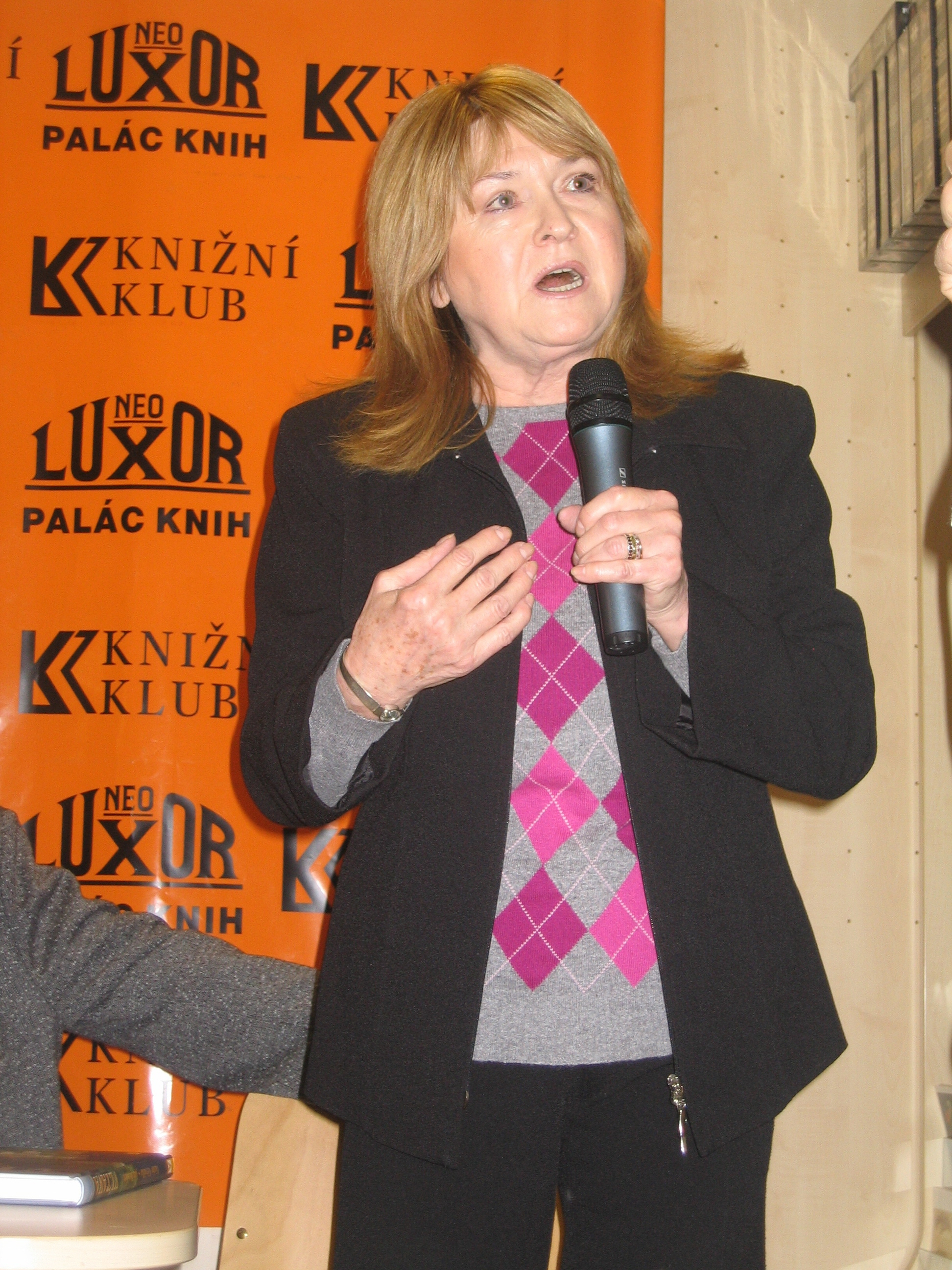 Pavlína Filipovská – Czech actress, singer, speaker, TV and radio moderator